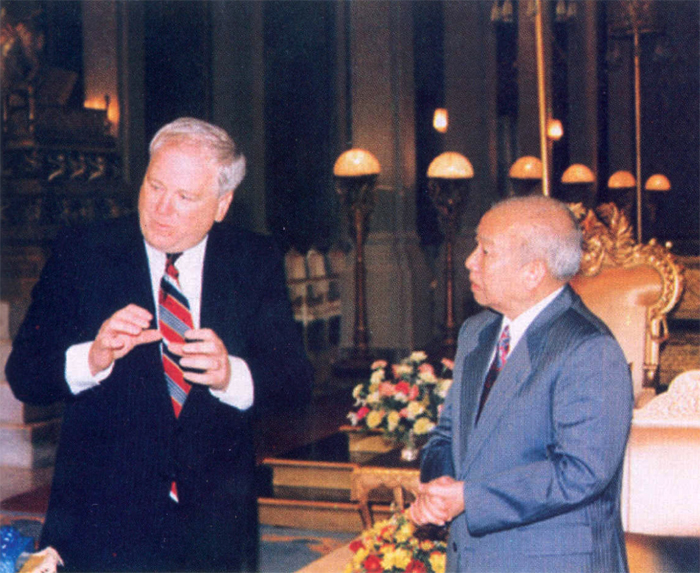 Ambassador Kenneth Quinn presenting his credentials to His Majesty King Sihanouk in a ceremony at the Royal Palace on March 28, 1996.